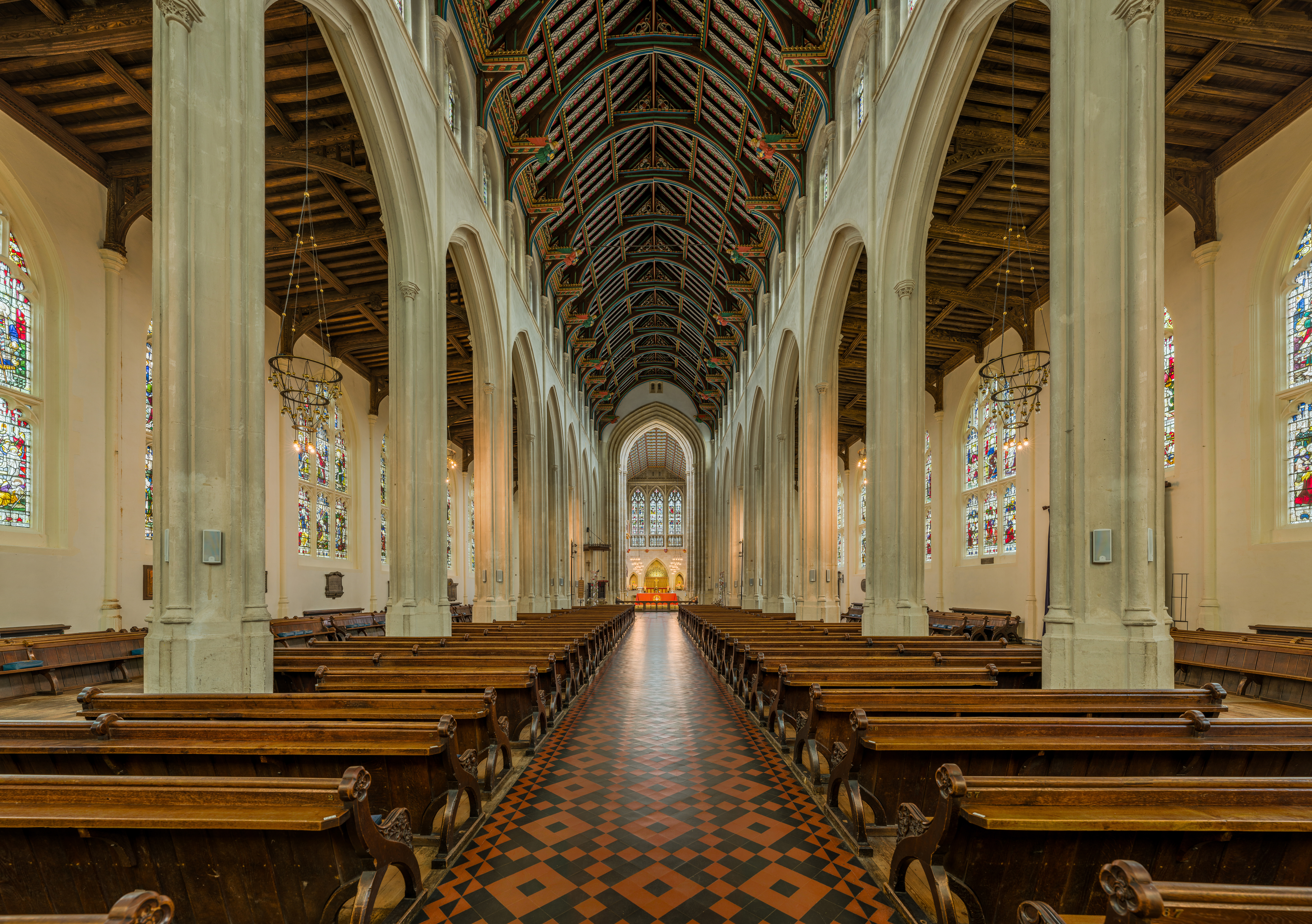 The view from the nave looking east in St Edmundsbury Cathedral in Suffolk, England.